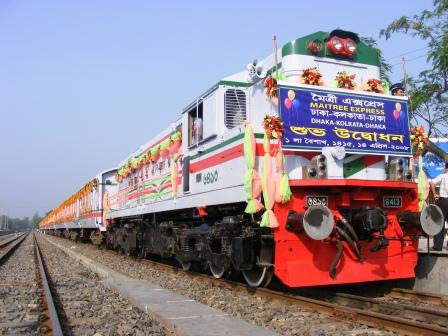 Maitri express - The only train in India which is linking two countries, India and Bangladesh. The terminal stoppages of this train is Kolkata(India) and Dhaka(Bangladesh).